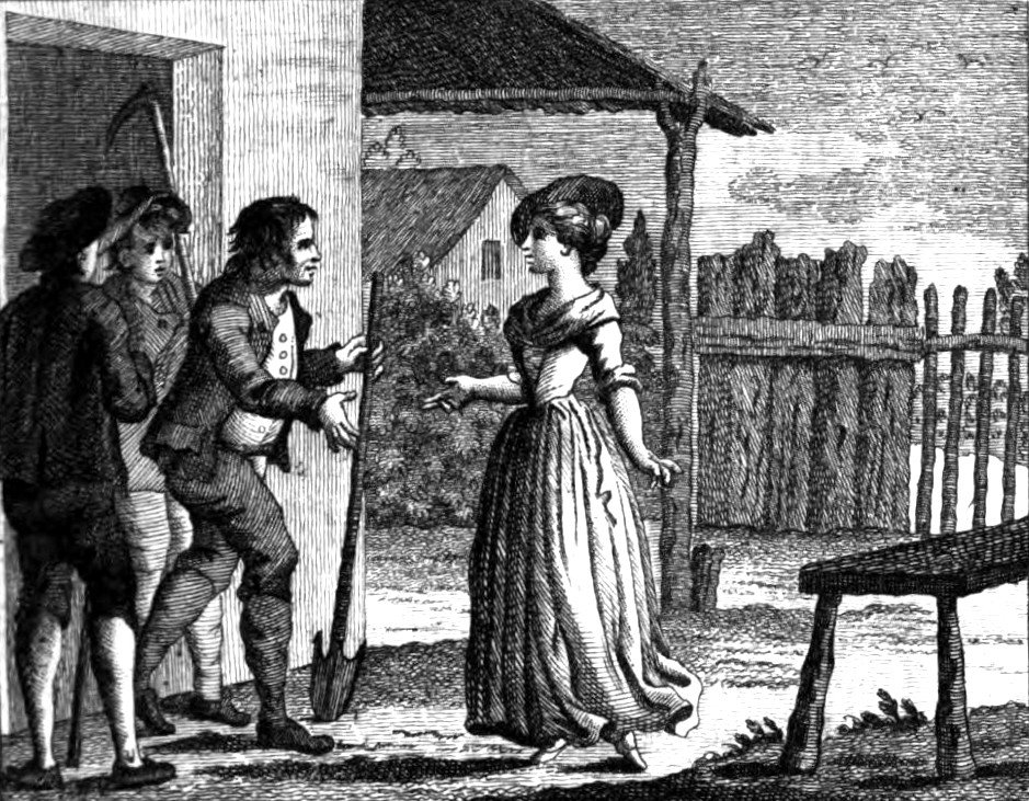 Illustration of Carl Goldini's libretto for the opera Il filosofo di campagna, composed by Baldassare Galuppi